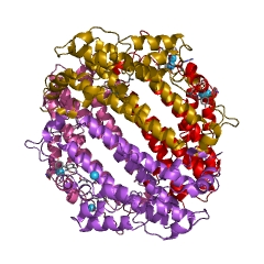 Cartoon representation of the molecular structure of protein registered with 1yw0 code.